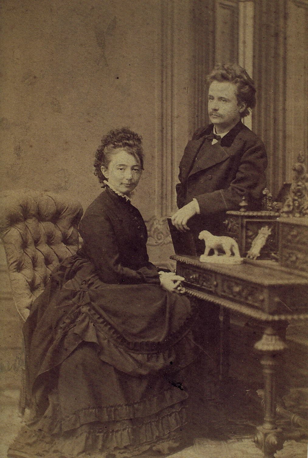 Artist: unknown Date/place: 11. jun 1867, Copenhagen/Denmark Subject: Nina and Edvard Grieg's wedding photo Medium: photographic positive and negative, B&W Notes: none Persistent URL: [#//nettbiblioteket.no/grieg-samlingen/engelsk/grieg_intro_eng.html” Original belongs to the Edvard Grieg Archives at Bergen Public Library]